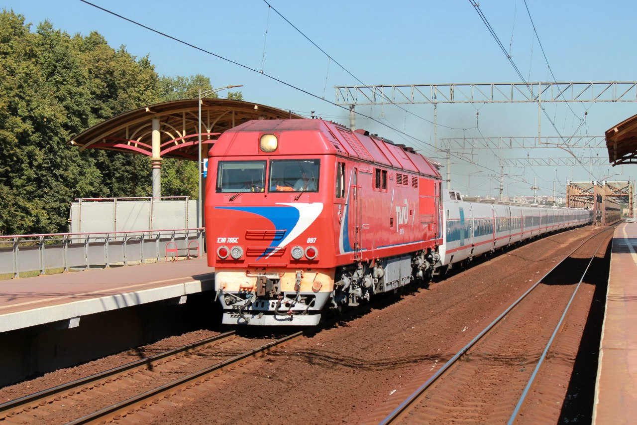 Diesel locomotive TEP70BS-097 with Talgo Strizh train, railway platform Moskvorechye, Moscow, Russia See also: Talgo.